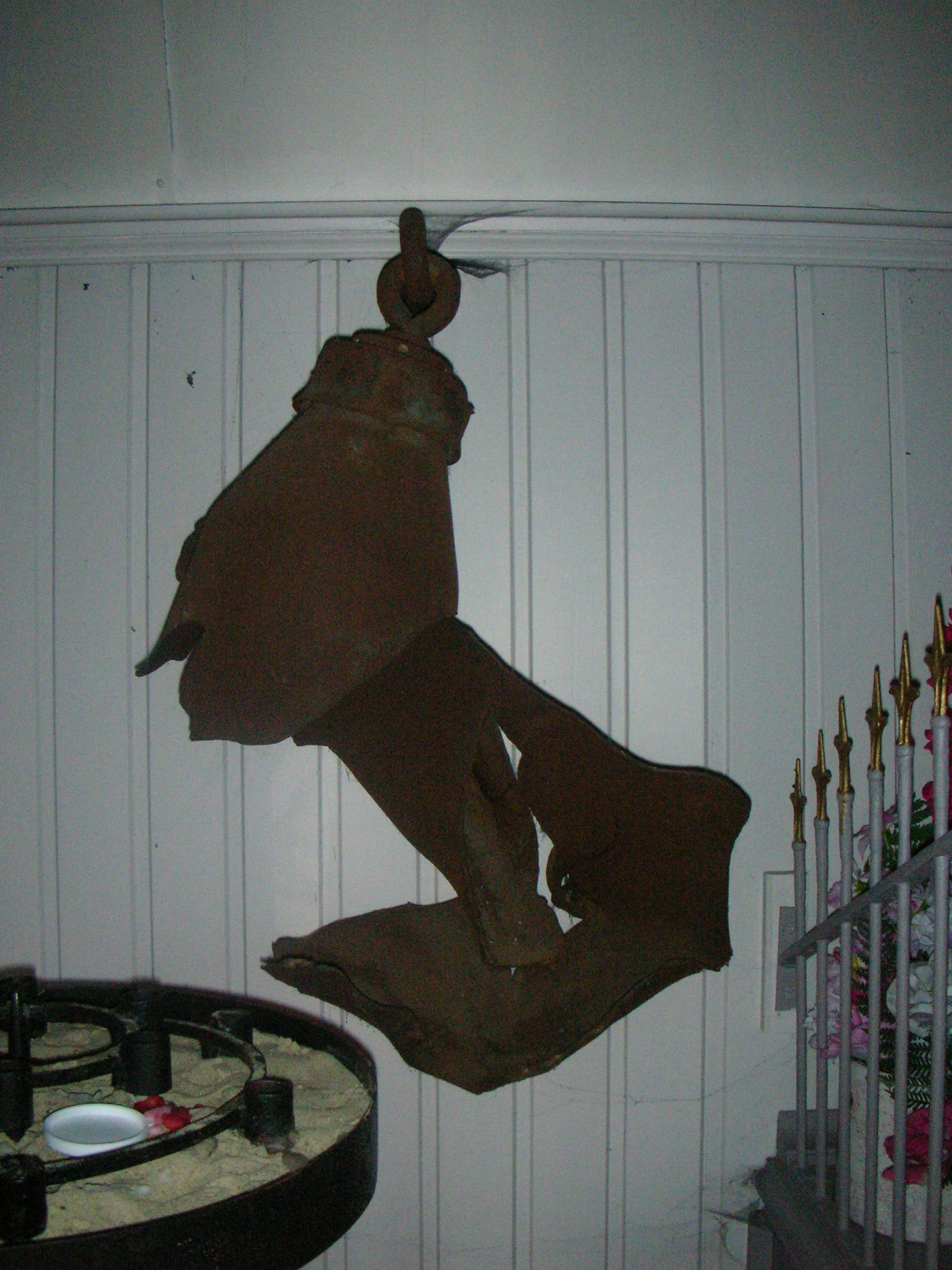 Torn open bomb in the Bomkapelle chapel in Koolskamp. Koolskamp, Ardooie, West Flanders, Belgium